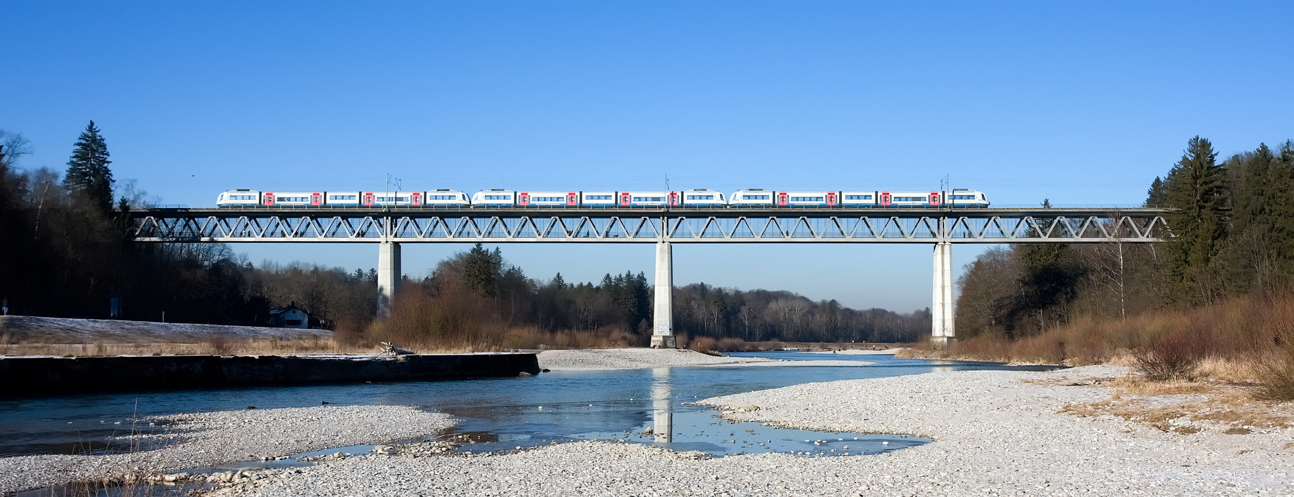 Großhesseloher Brücke in Munich, Germany